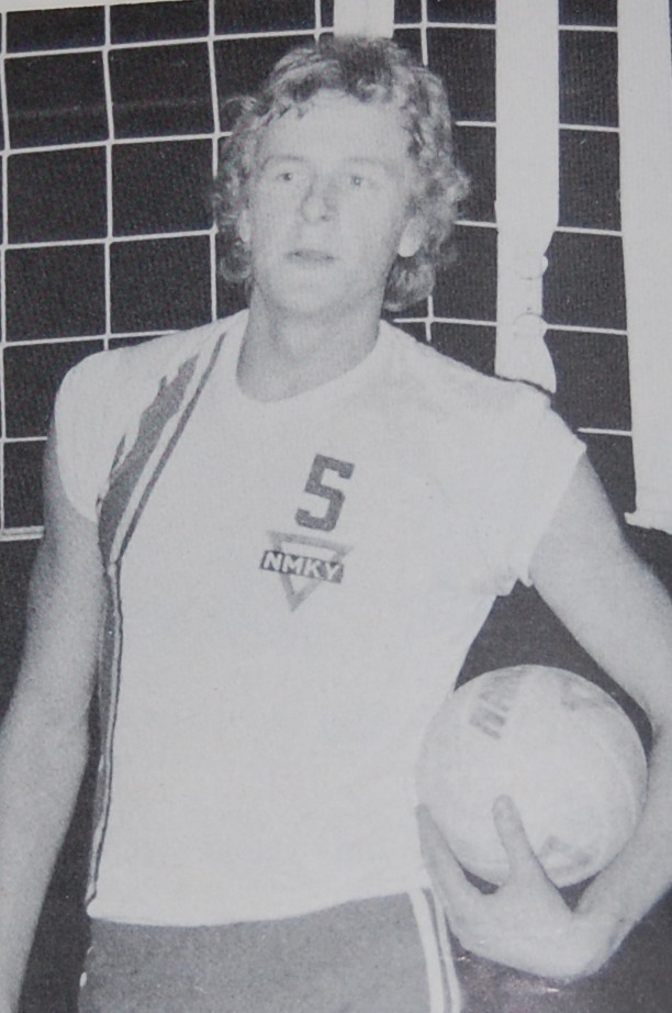 Jouni Parkkali in Pieksämäen Namika short